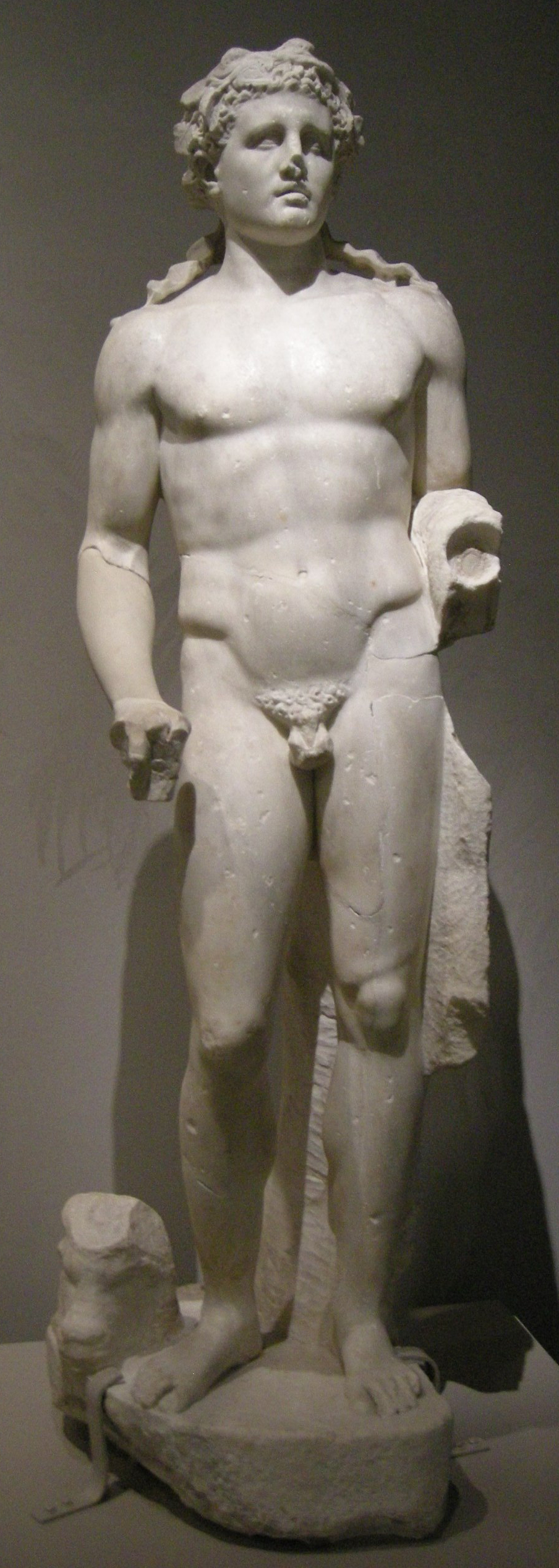 Roman copy after a Greek marble dated c. 370–350 BCE.